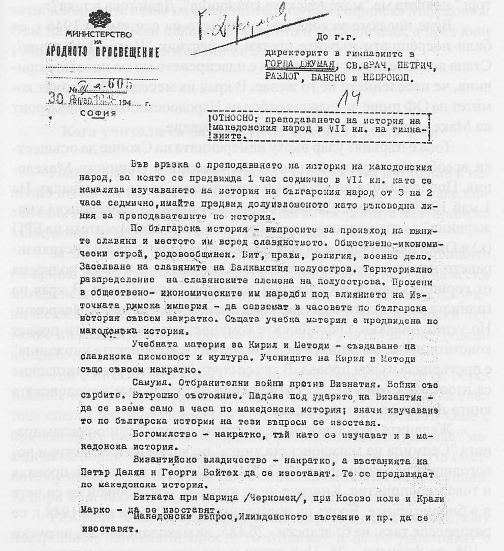 Program of bulgarian ministry of enlightment about so called culture autonomy of Pirin Macedonia